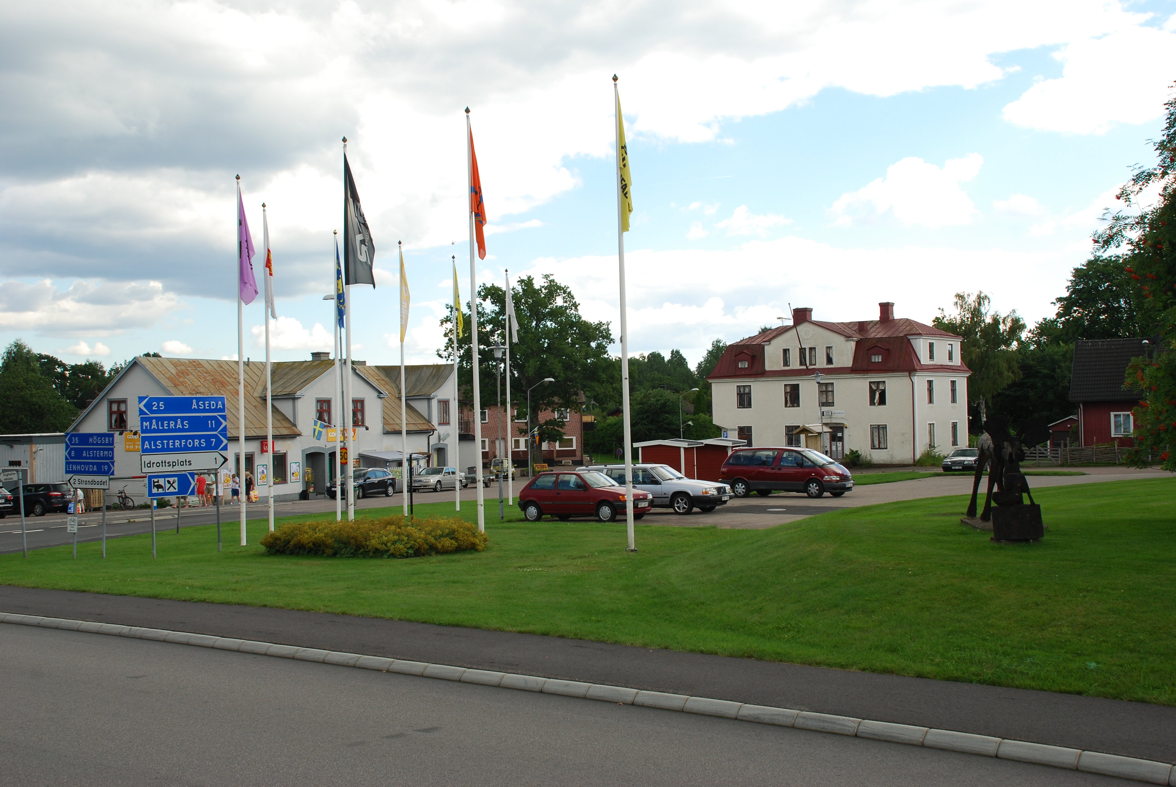 The center of Älghult